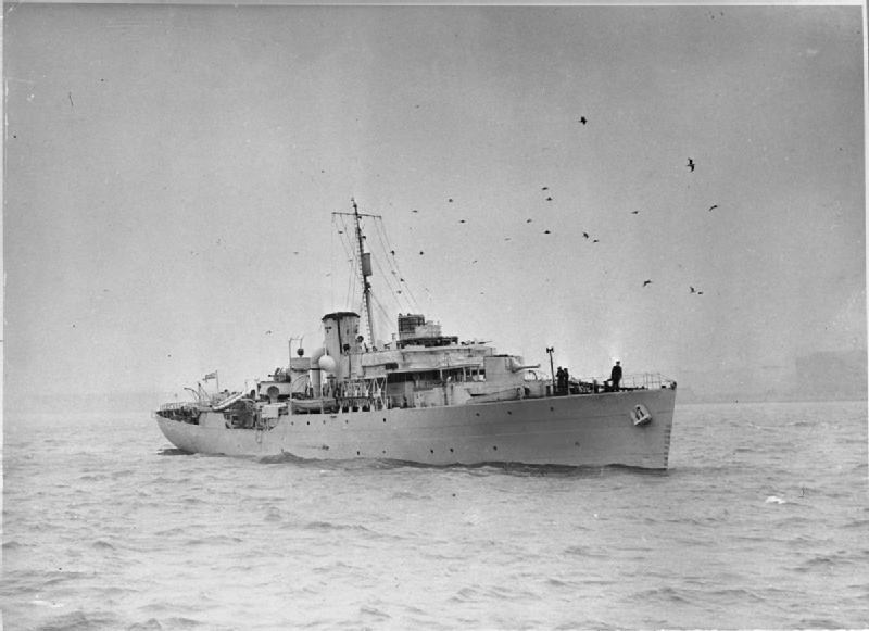 Photograph of British corvette HMS Anchusa, off Liverpoool, UK.